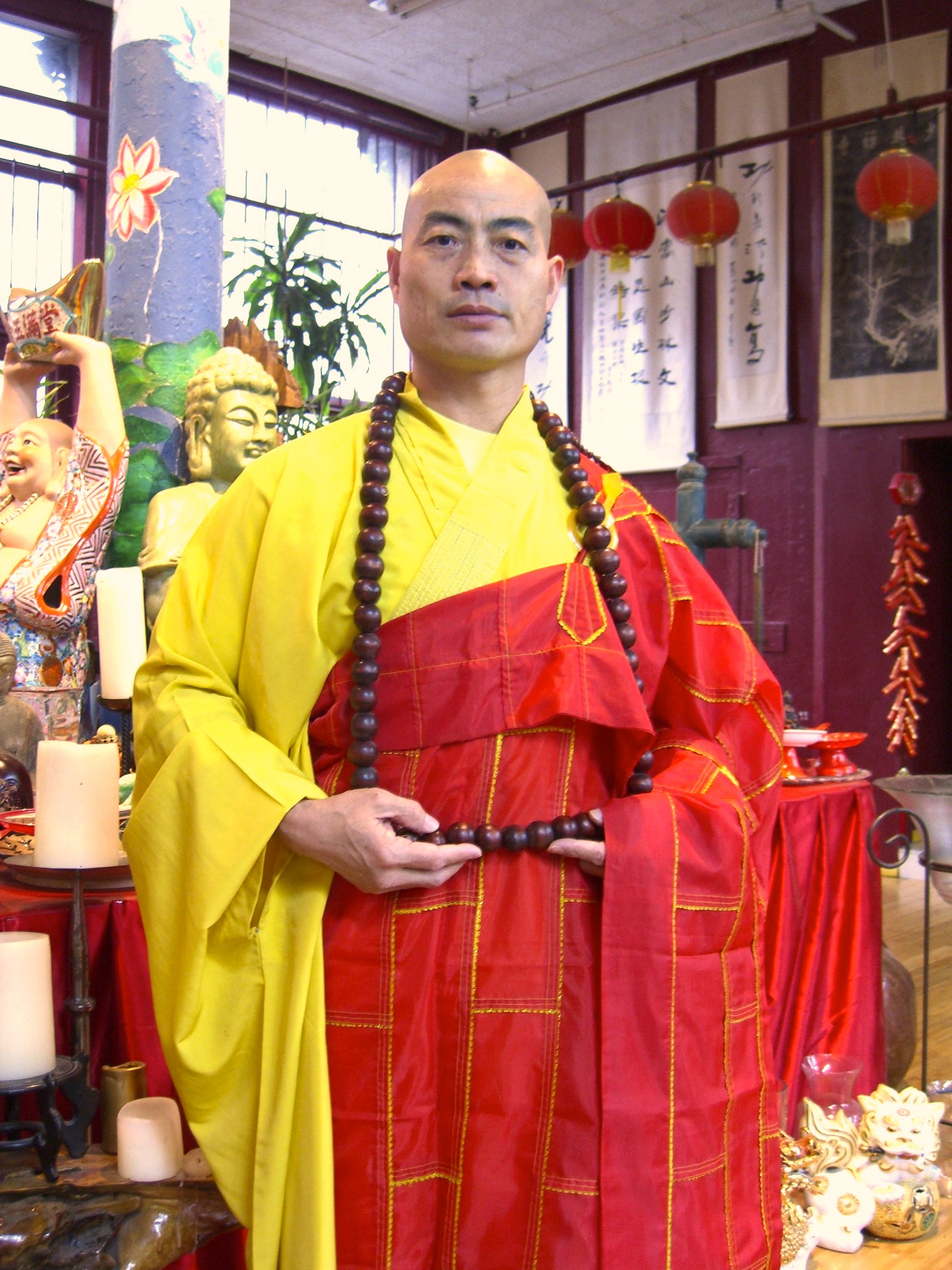 34th generation Shaolin warrior monk Shi Yan Ming, at the USA Shaolin Temple in Manhattan, November 4, 2010. Many thanks to Shifu Yan Ming and his staff. Photographed by Luigi Novi. This photo may be used, modified and published for any purpose, only if an easily visible credit to the photographer is placed near the photo in each instance in which it is used. (See licensing information below.) Publication of this photo without this proper attribution constitutes copyright infringement. For more information on my photos, you can contact me here.